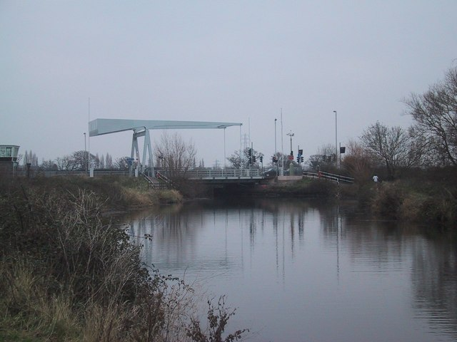 Lift Bridge over the Canal at Countess Weir